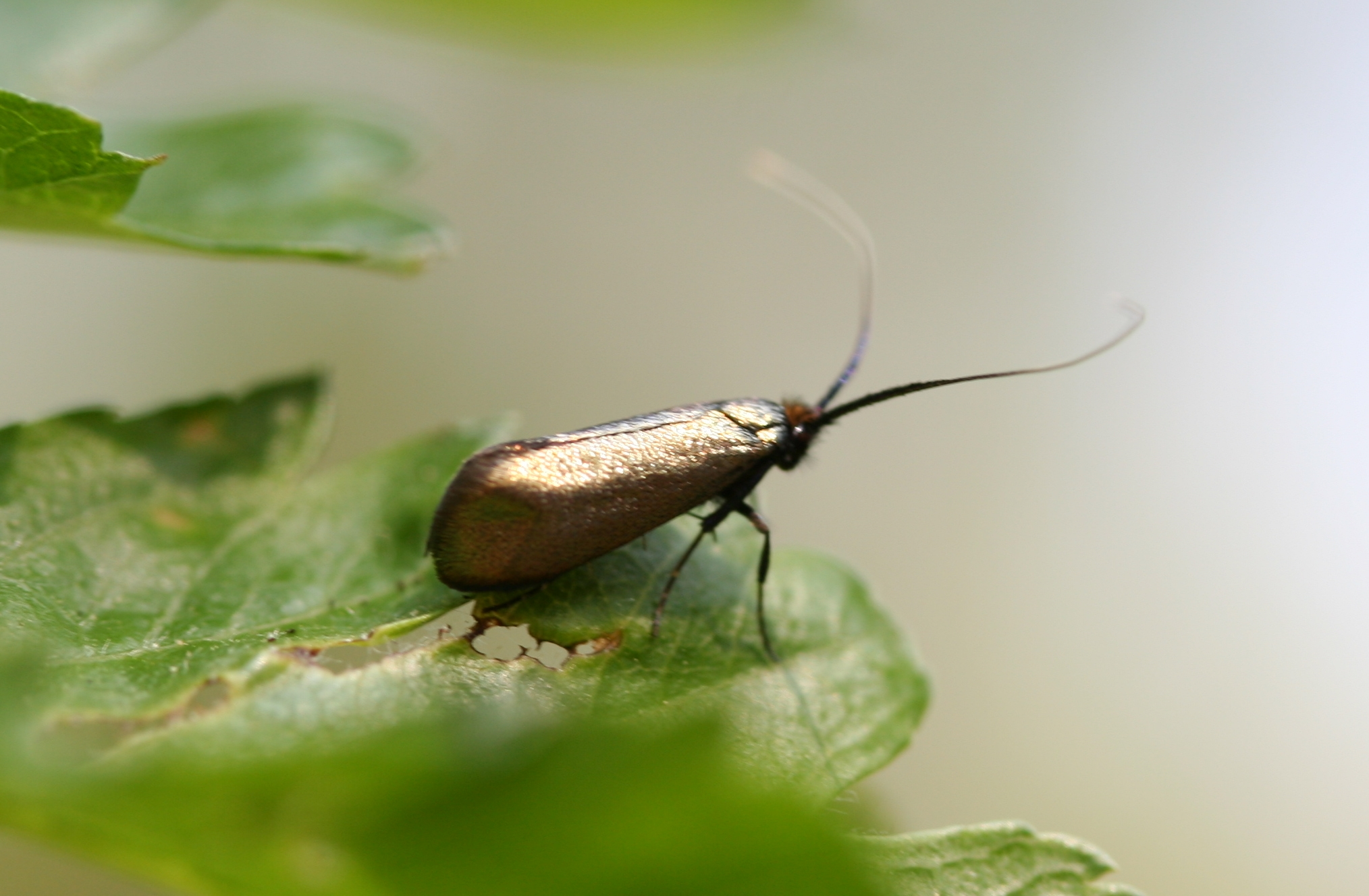 Adela reaumurella 7 may 2006 IJmuiden, the Netherlands